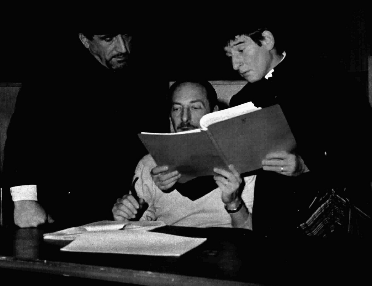 Italian actors Arnoldo Foà and Renato Rascel and director Vittorio Cottafavi